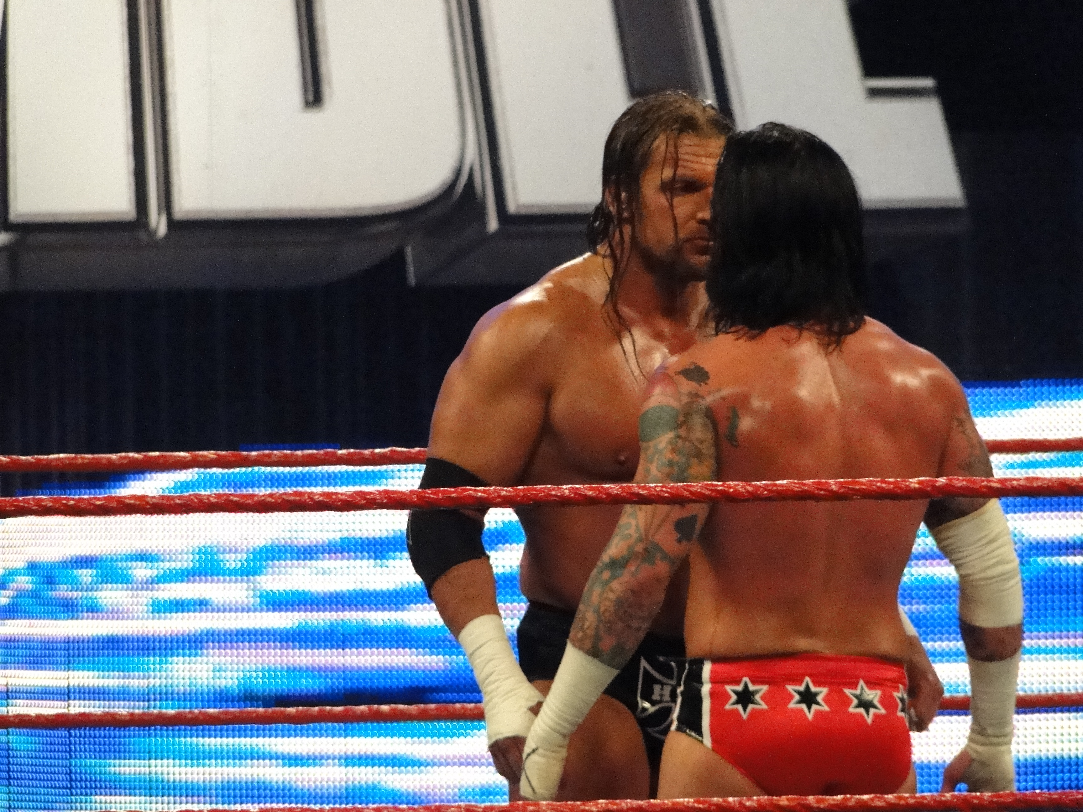 HHH & CM Punk at the battle royal